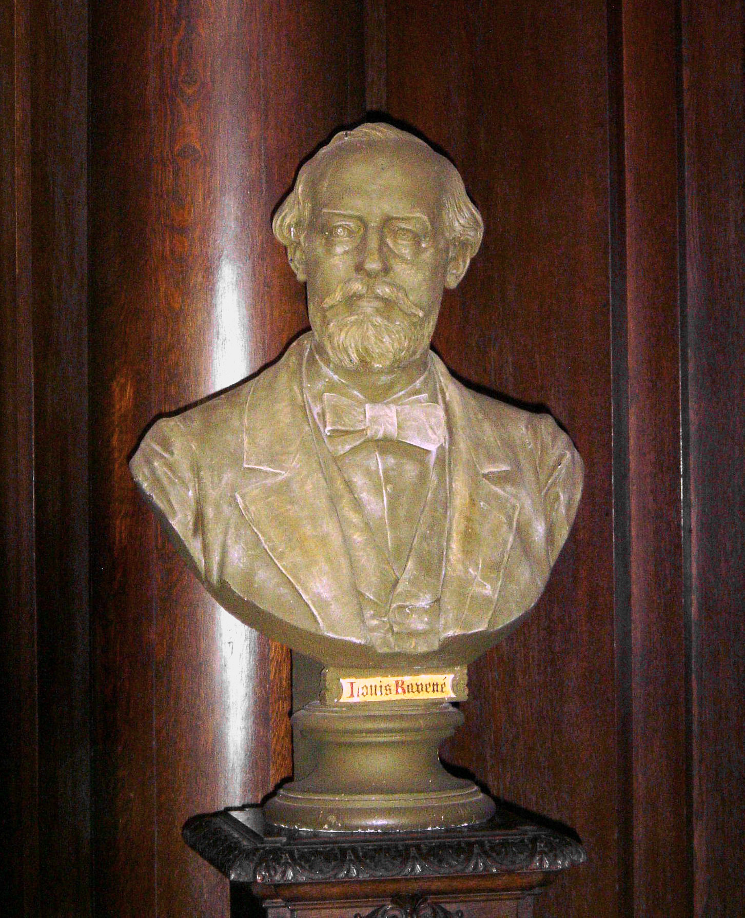 Bust of Louis Ravené in Cochem Castle